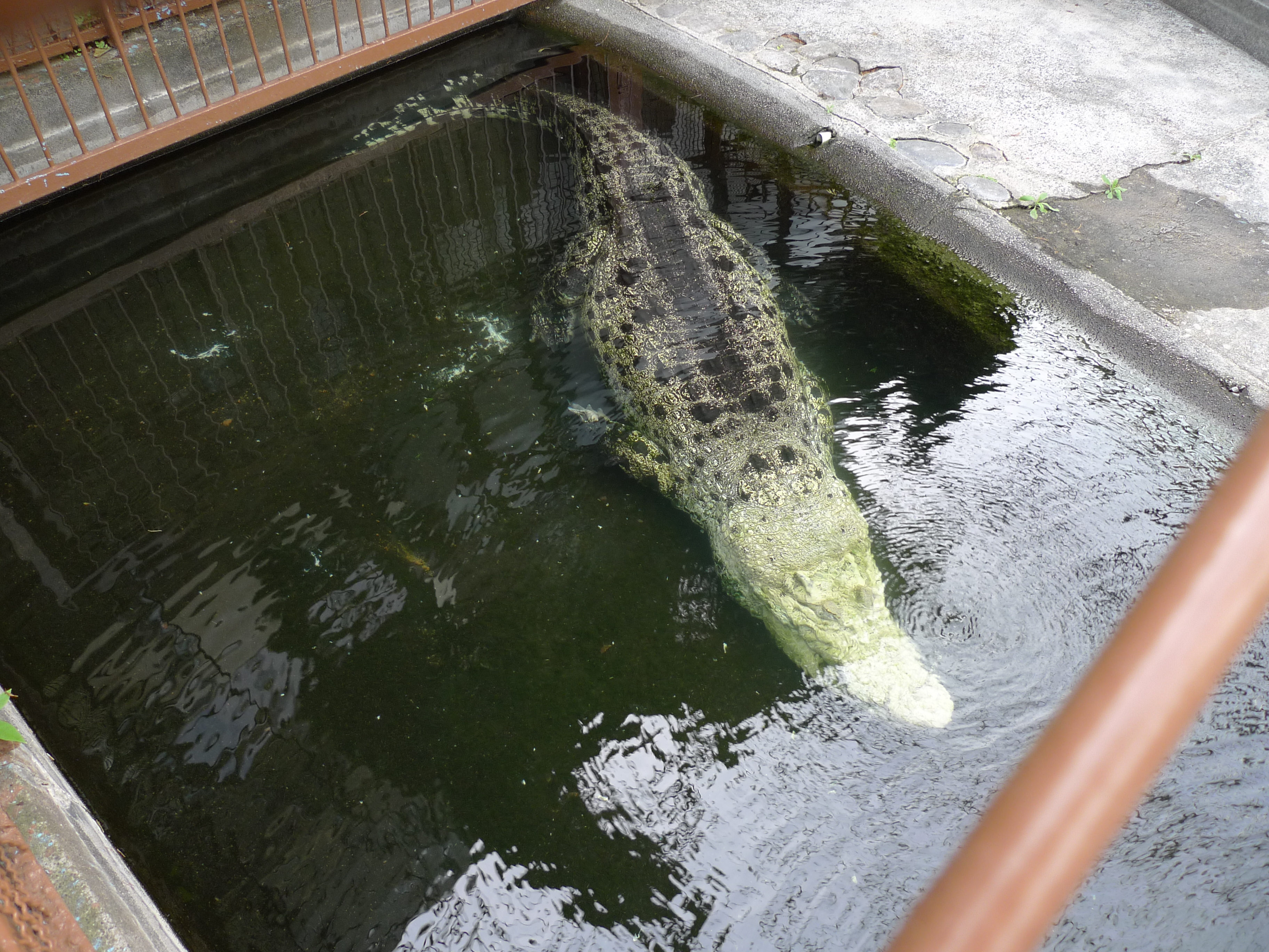 white Alligator, Atagawa Tropical & Alligator Garden, Izu town, Kamo-gun, Shizuoka pref, Japan